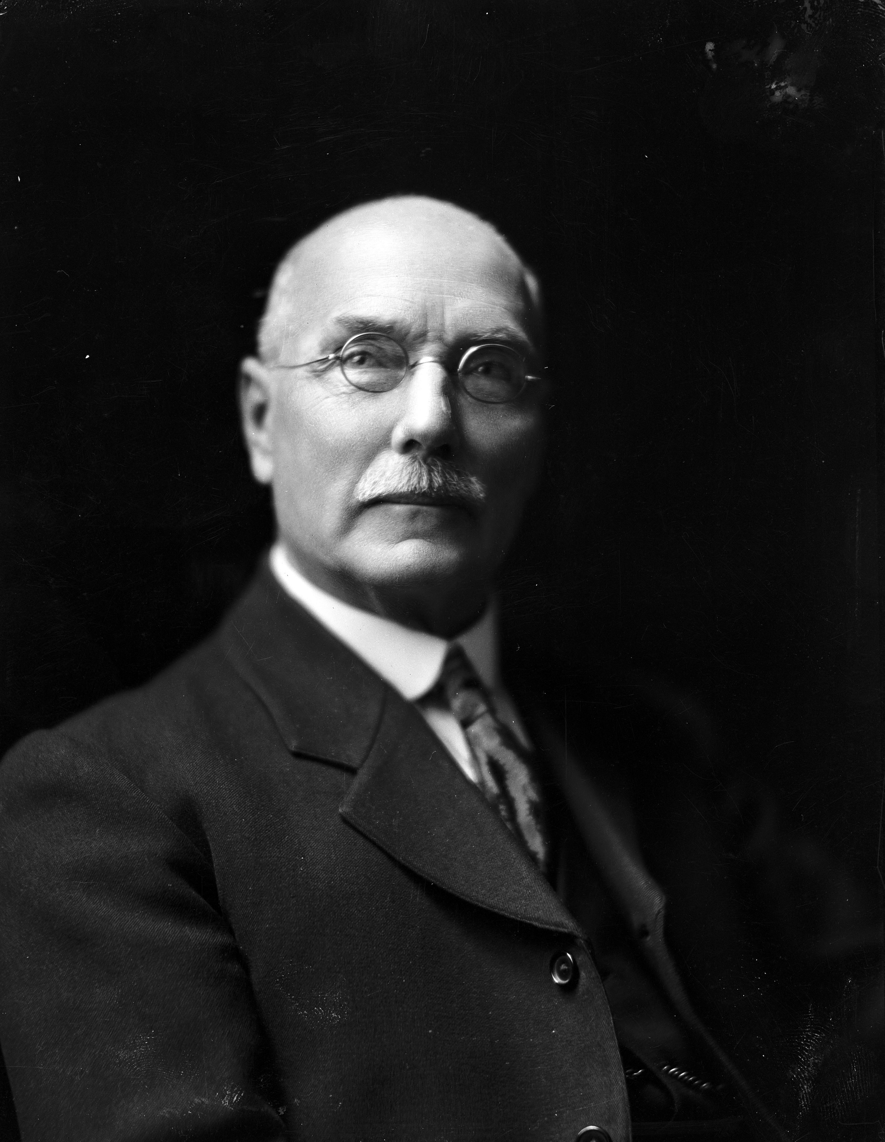 Samuel Hurst Seager, photographed in 1926 by S P Andrew Ltd.